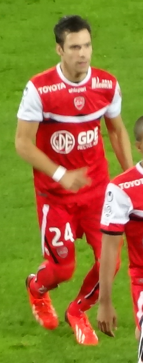 Gary Kagelmacher, Valenciennes FC